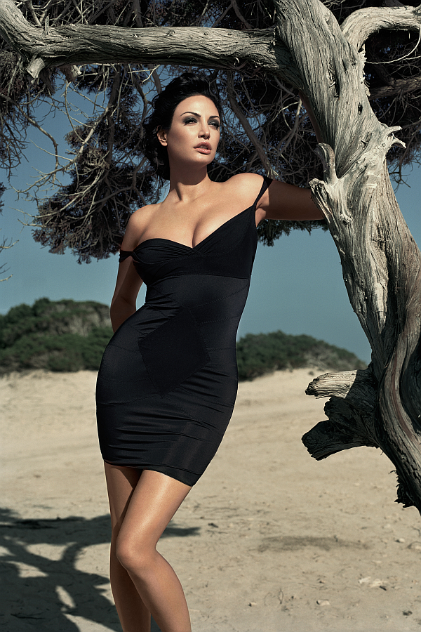 Bleona Qereti's Ibiza photo shoot by photographer Vincent Peters